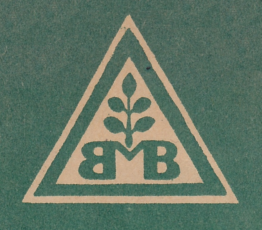 Logo of the Hamburg, Germany,-based company Herbakalaja GmbH which was founded in 1924. This company produced and distributed herbal medicaments.